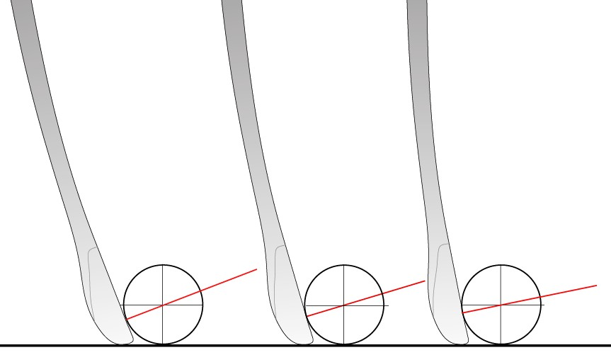 Stick-face presentation to ball of bowed hockey stick